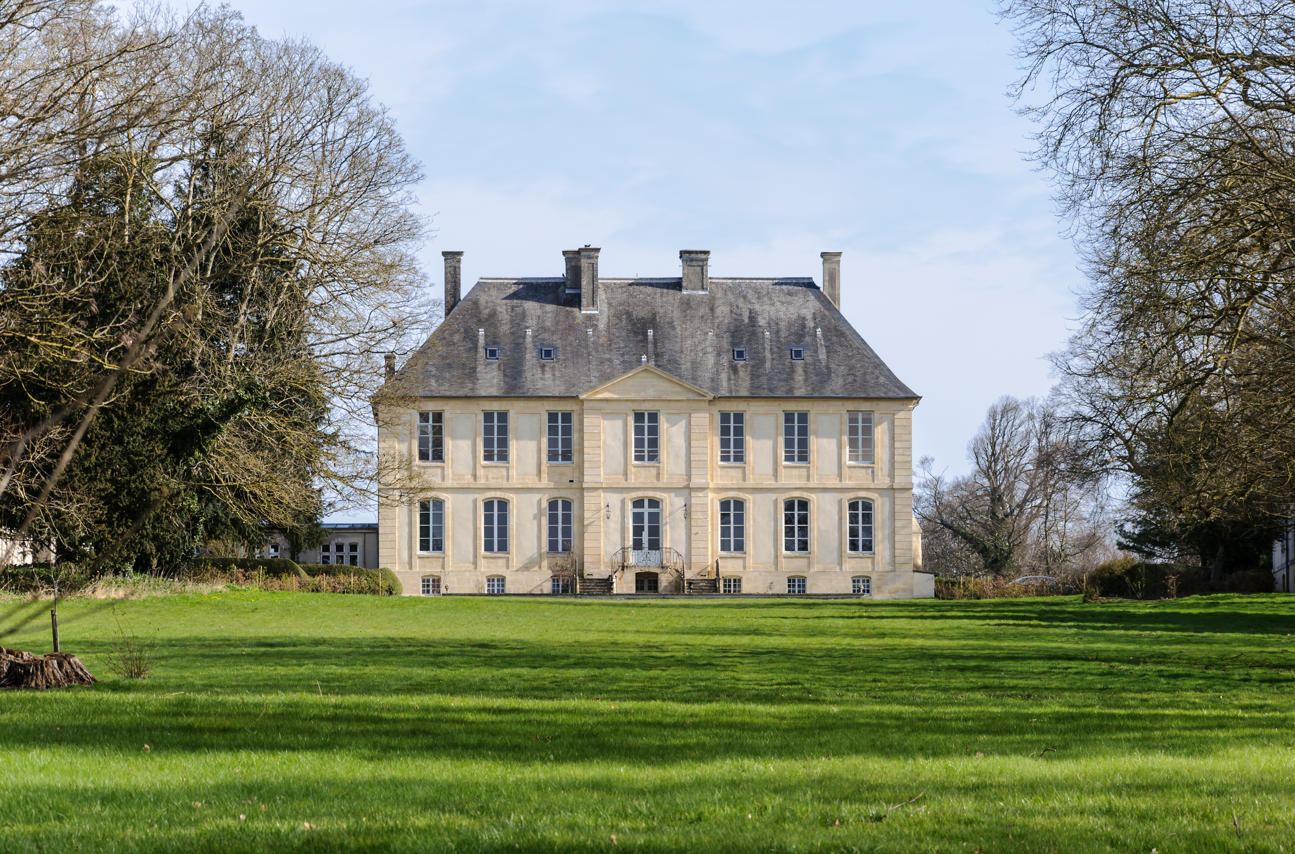 Château de la Ferrière in Vaux-sur-Aure, Calvados, Basse-Normandie, France .